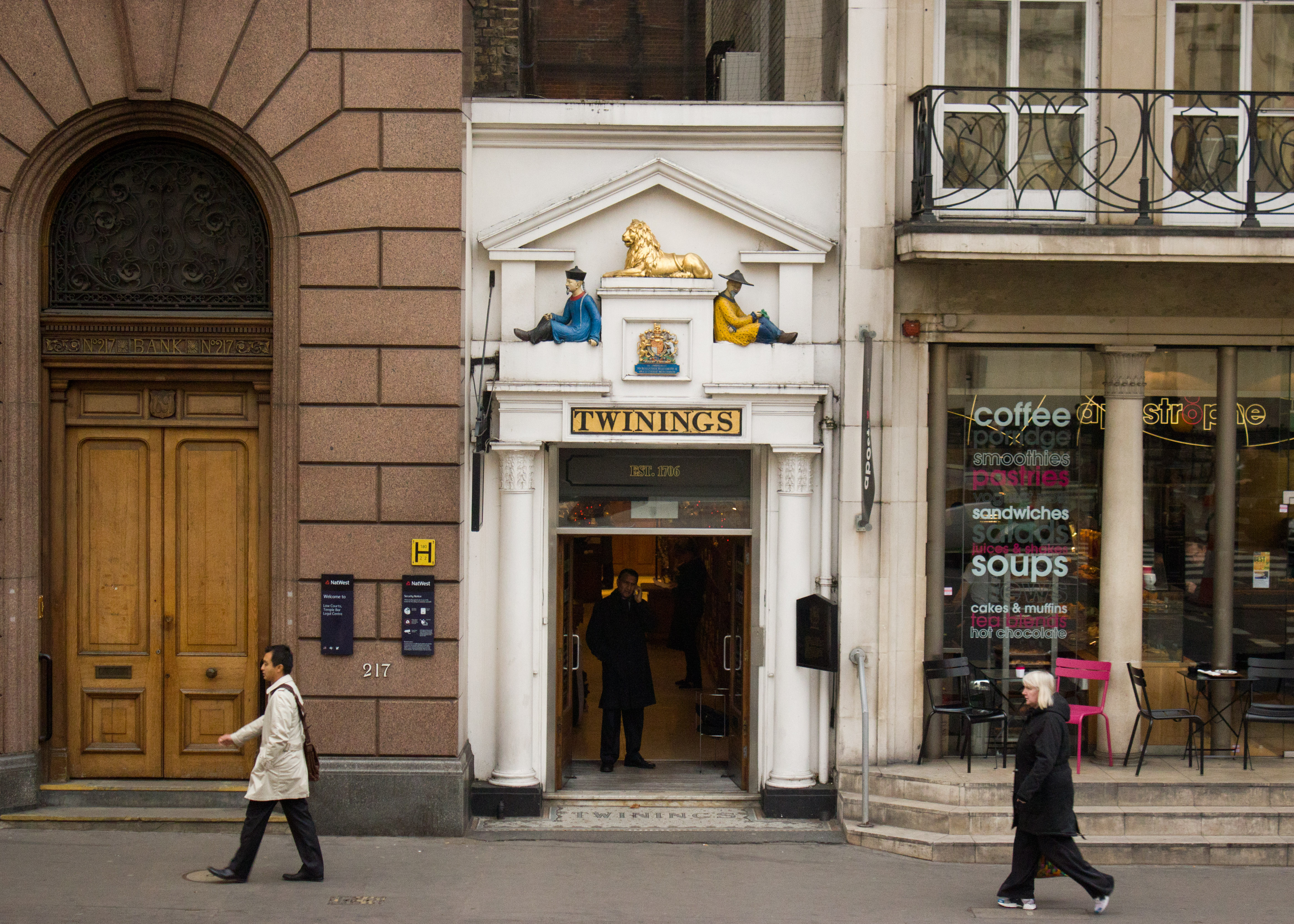 London, England 2011